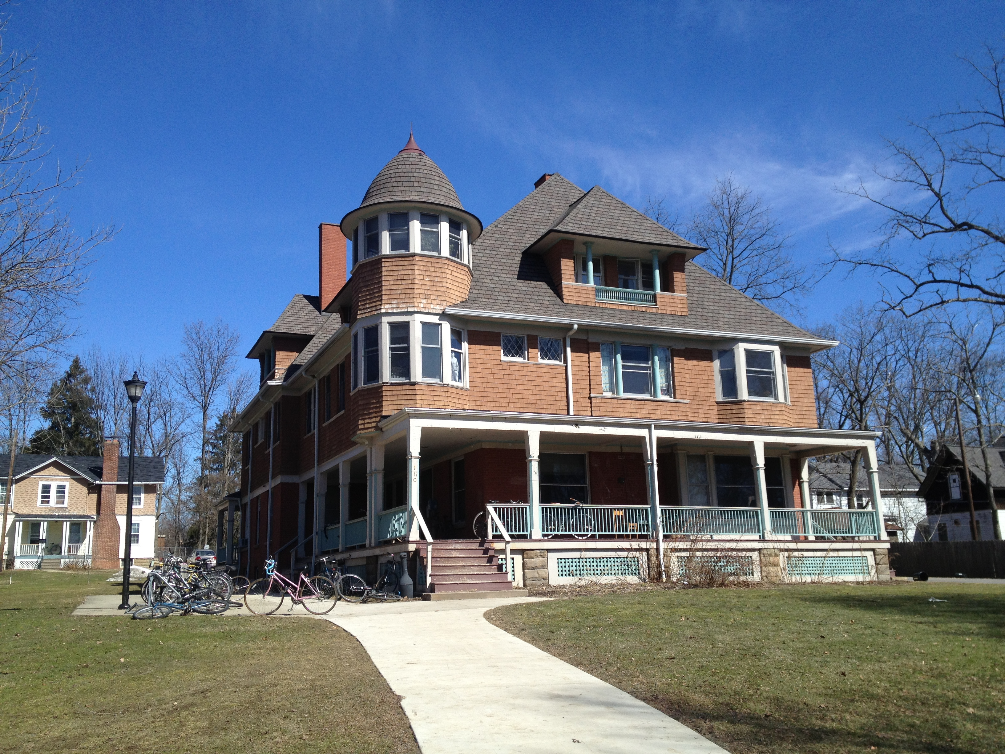 Picture of Tank Cooperative in Oberlin, Ohio